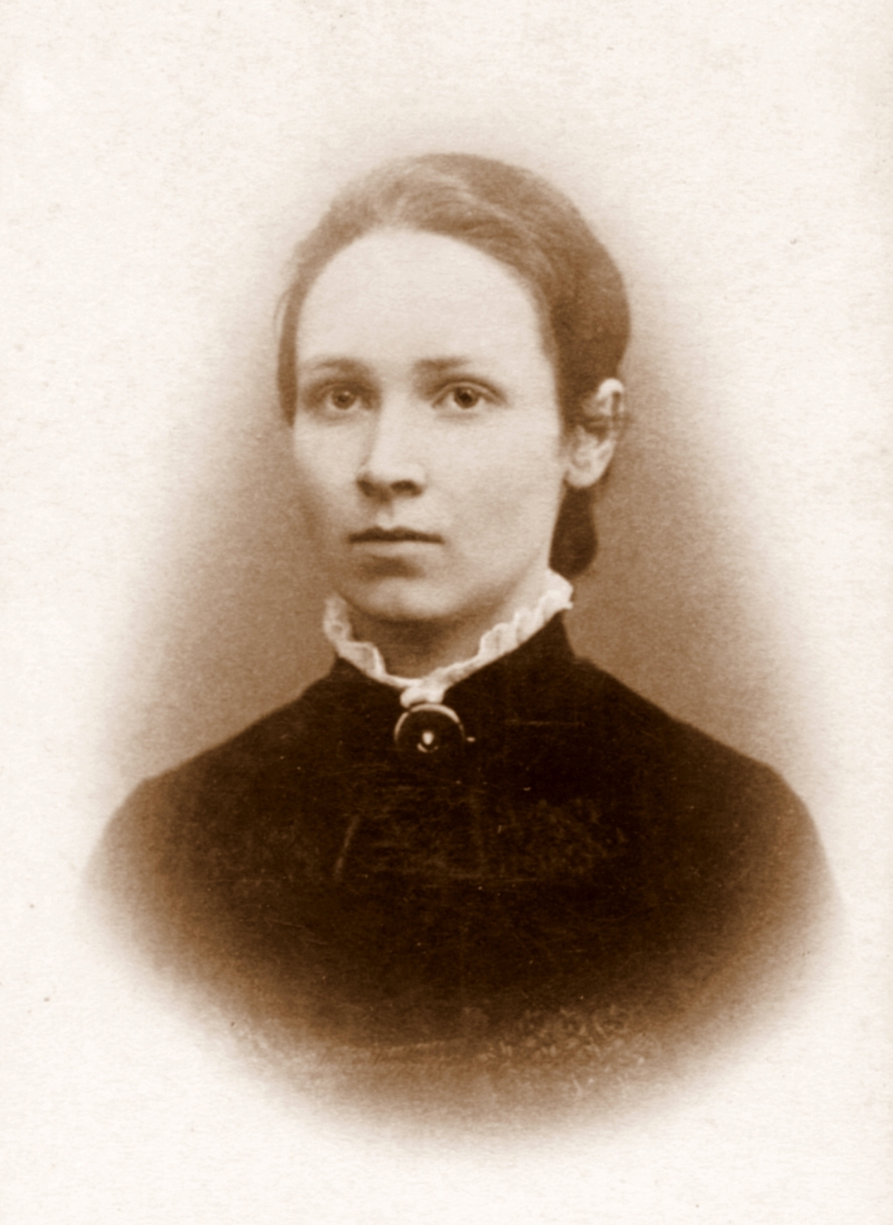 Albert Erbslöh] from Eisenach, Thuringia